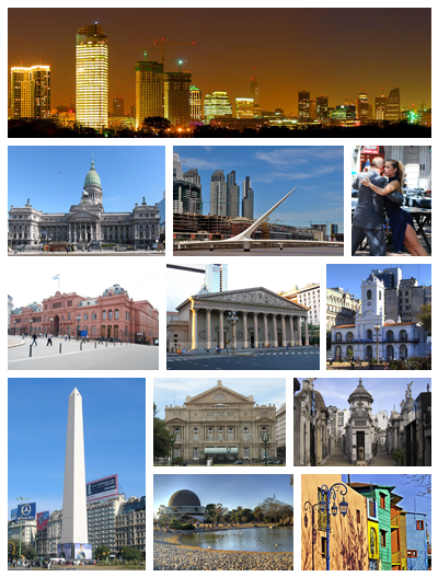 Photo montage of Buenos Aires, Argentina. Based on File:Manchester Bordered Montage.jpg